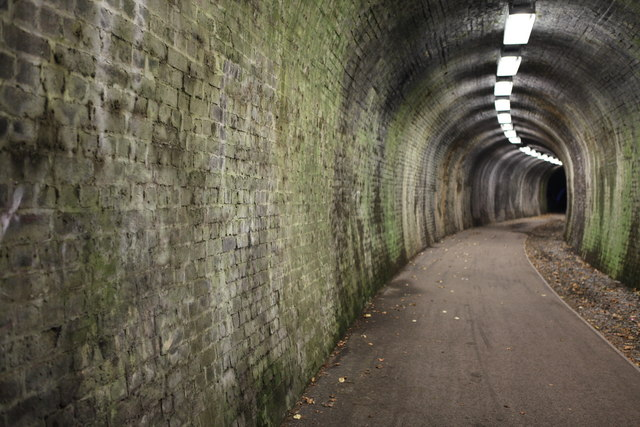 Cycle path tunnel near Auchendinny The old Penicuik to Dalkeith railway is now a well maintained cycle path and walkway.